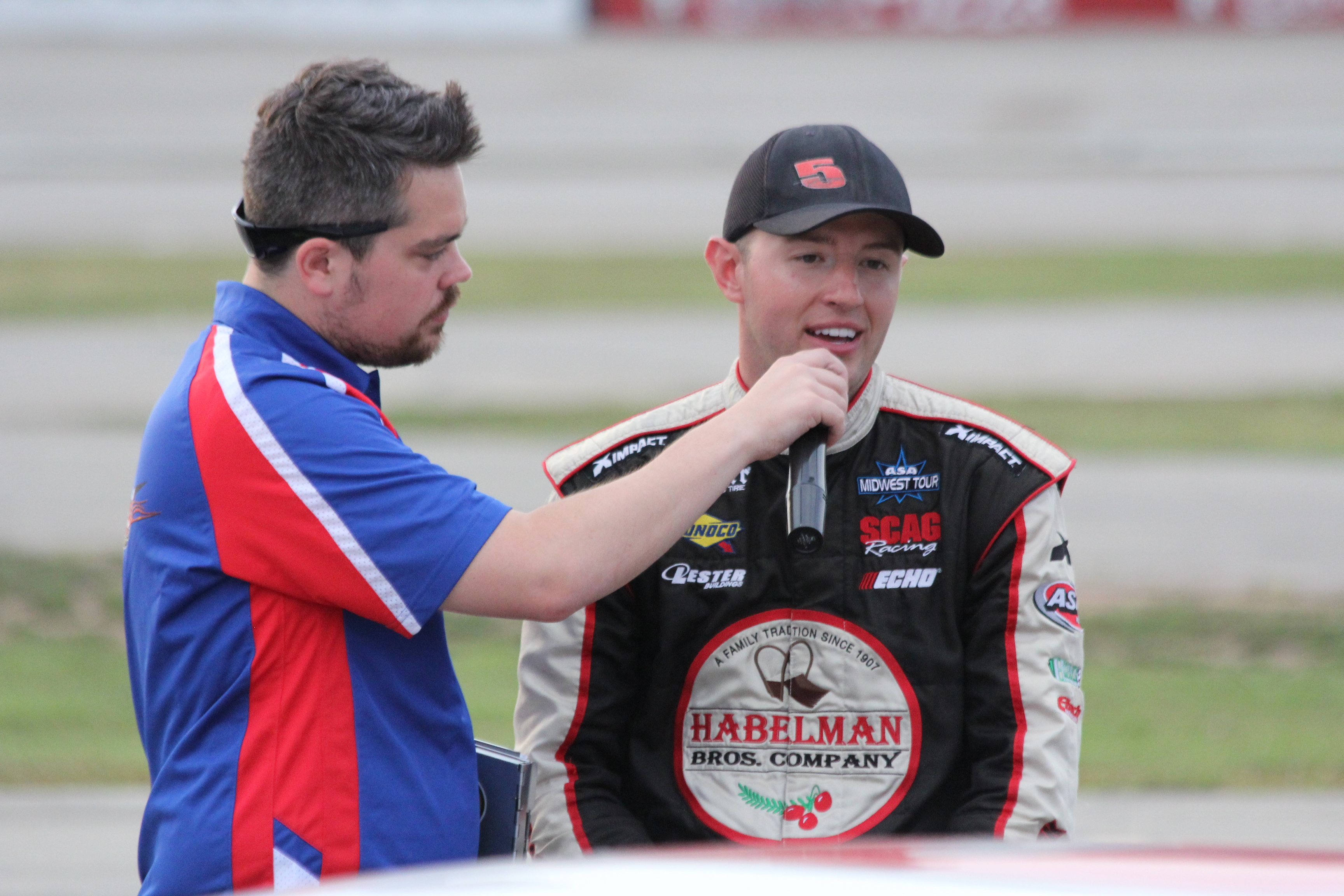 Driver Travis Sauter (right) being interviewed at the ARCA Midwest Tour race at Wisconsin International Raceway by track announcer Matt Panure. Panure later became the editor of Circle Track magazine.